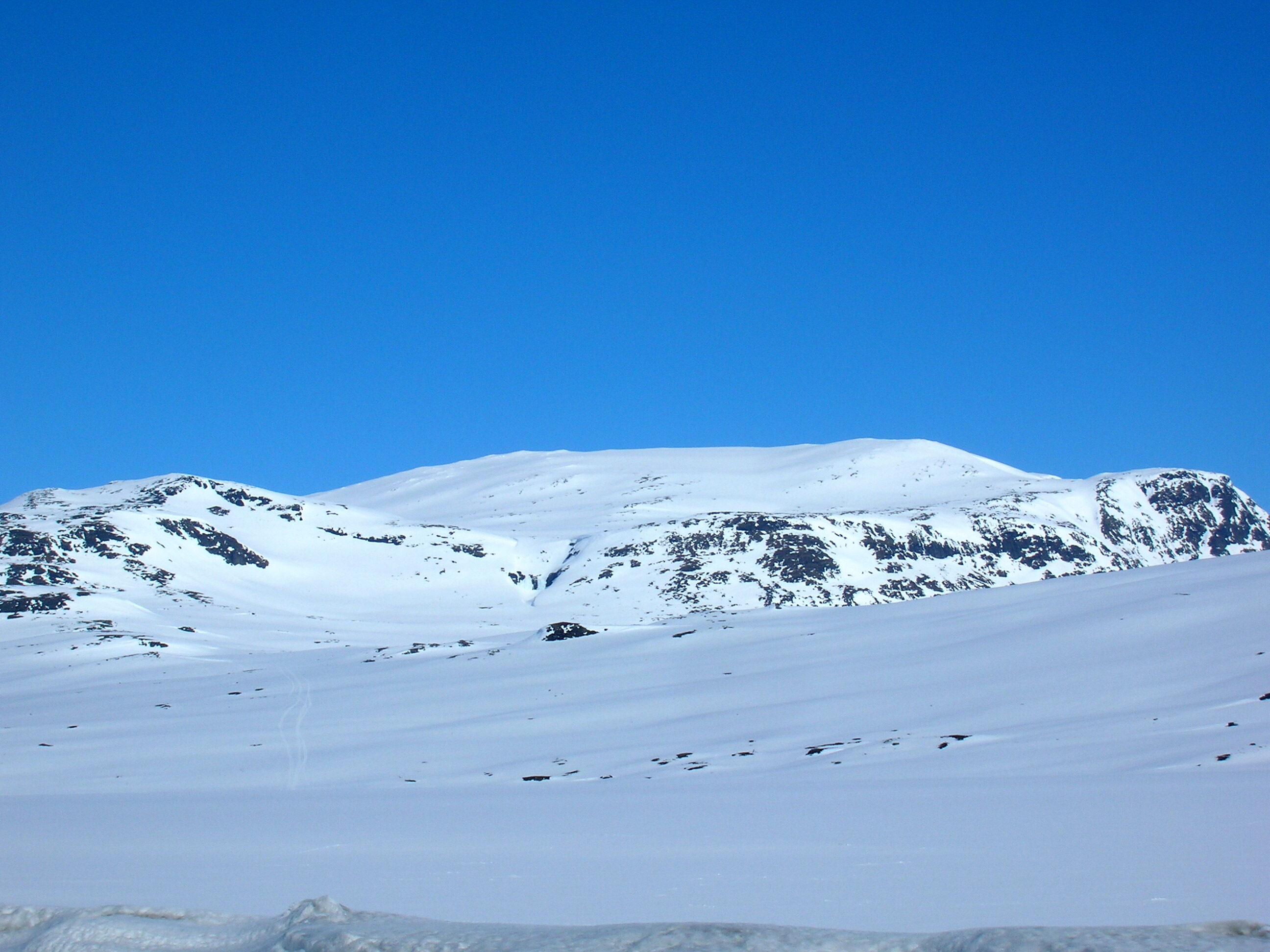 A picture of the norwegian mountain massif of "Store Jukleeggi" and "Høgeloft" behind. Located in the municipality of Lærdal/Hemsedal. The picture is taken from Eldrevatnet in south-west.